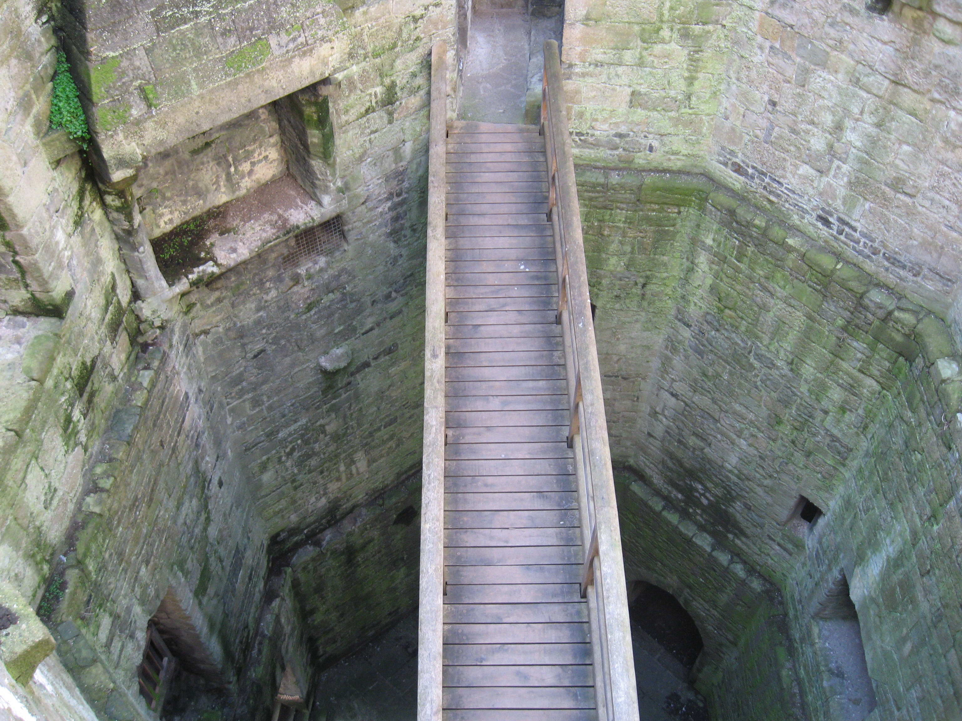 Caernarfon Castle:The Well Tower